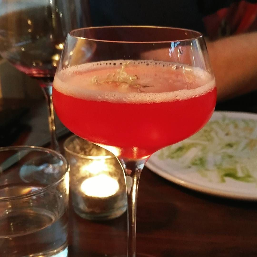 Russian spring punch